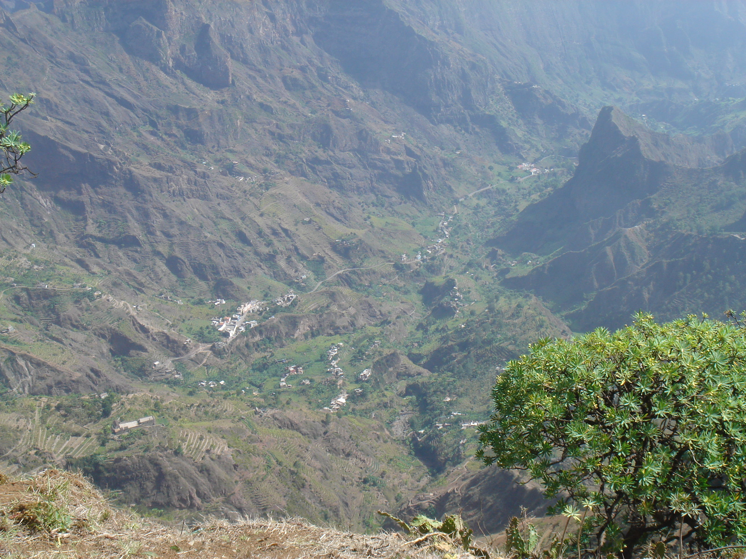 Picture from Santo Antão island (Paul valley) in Cape Verde.